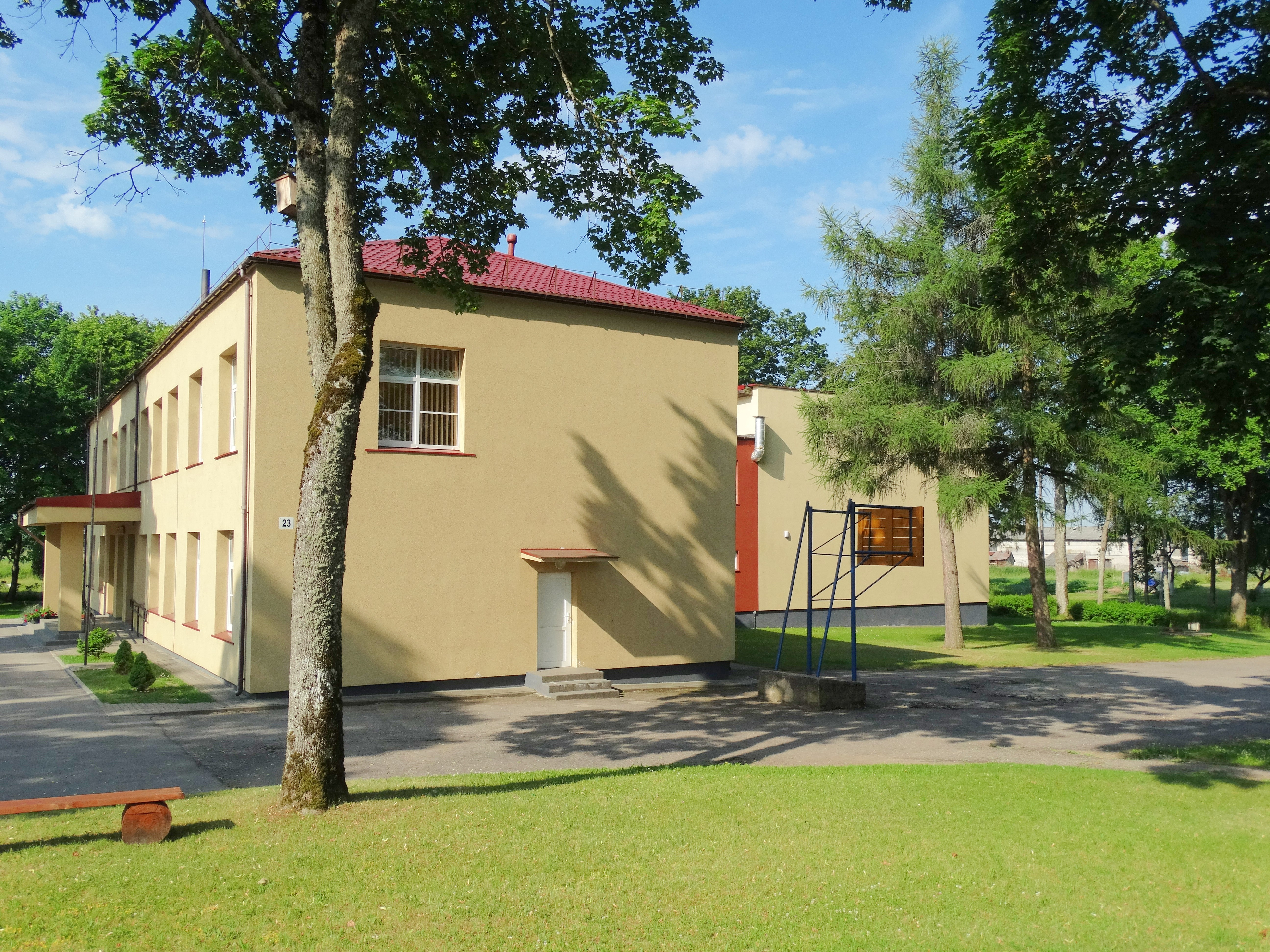 School, Janapolė, Telšiai District, Lithuania